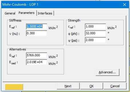 Mouhr Coulomb parametres od soil in PLAXIS